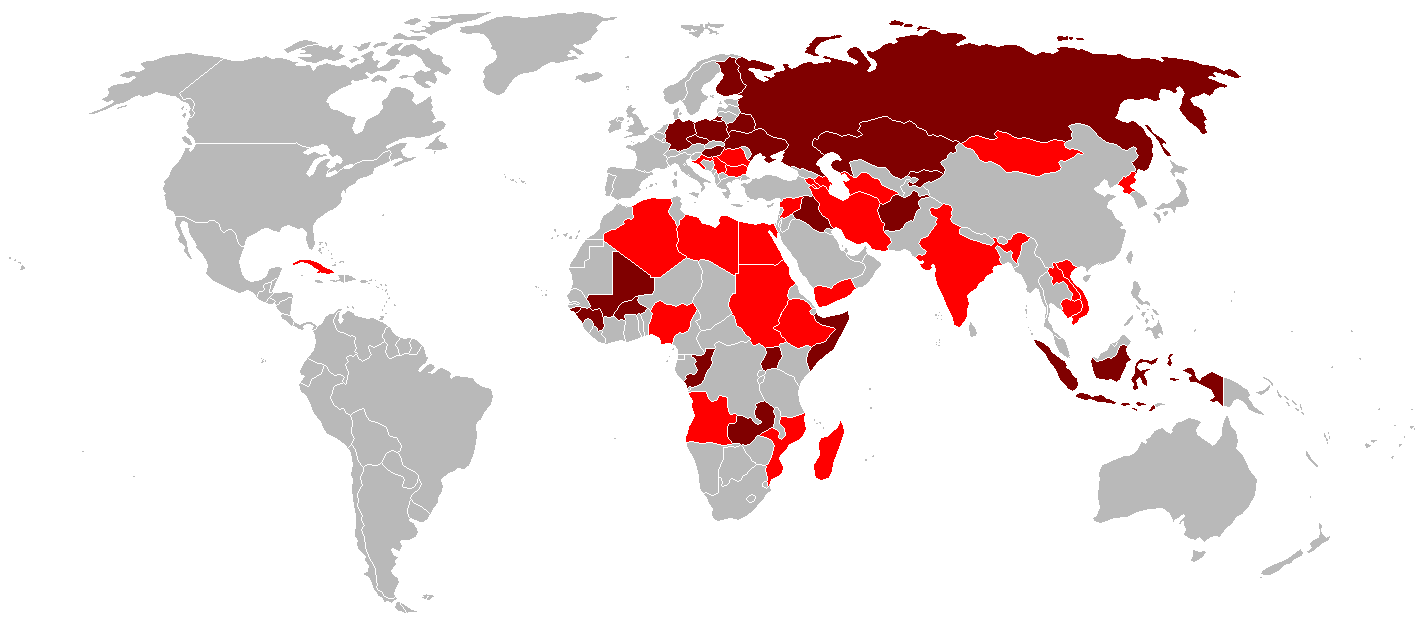 Operators of the Mikoyan-Gurevich MiG-21. Leaves out countries only operating the Chengdu J-7. Outdated. See File:MiG21operators.png for a newer version.